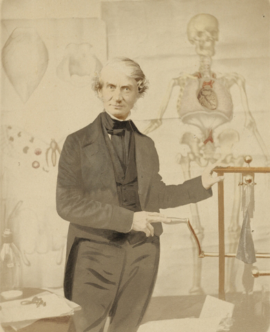 Dr. Edward Swarbreck Hall, 1858, chromotype [attributed], by Frederick Frith, State Library of New South Wales, ML 541